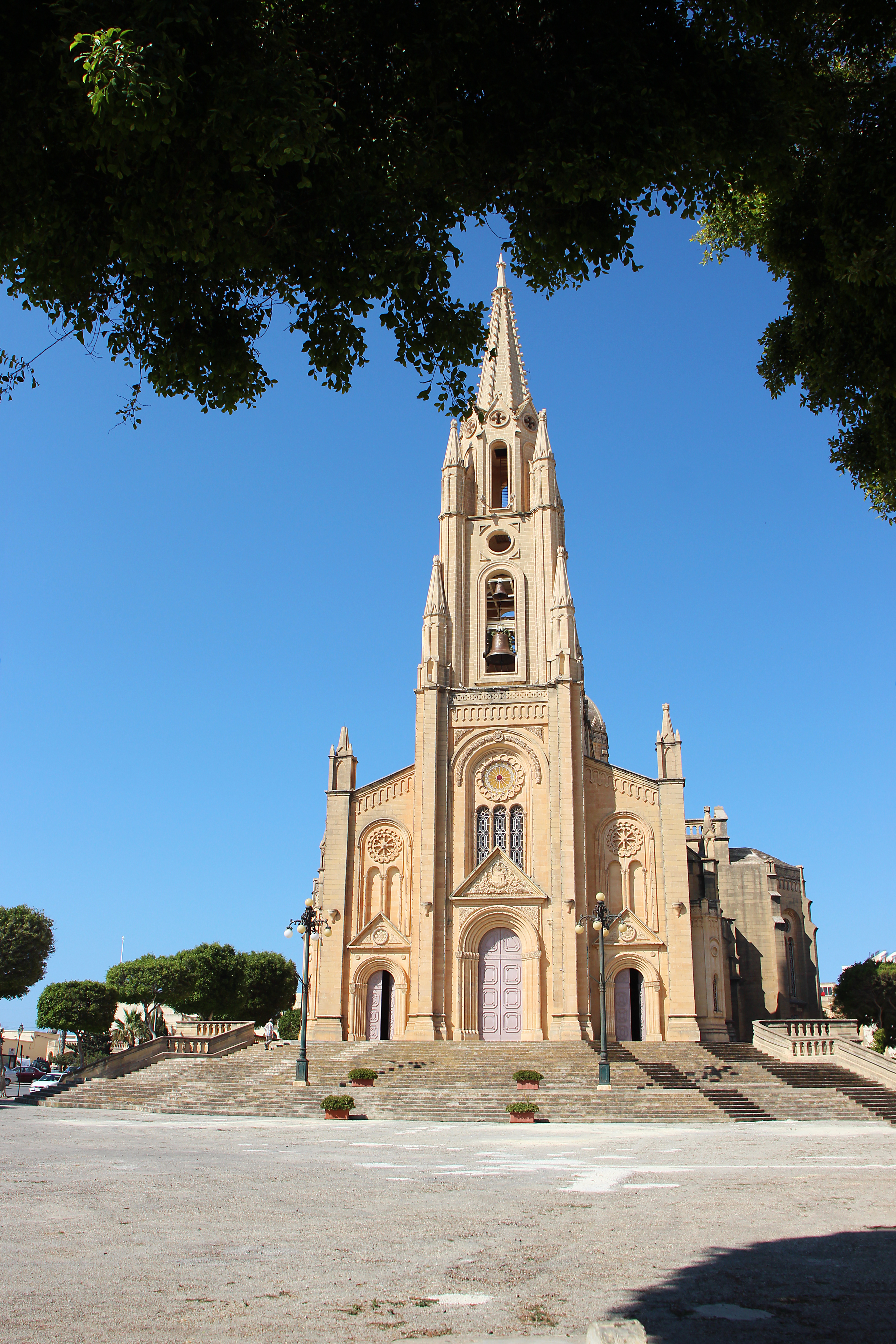 The new Parish Church of Our Lady of Loreto in Għajnsielem, Gozo Malti: Il-Knisja Parrokkjali l-ġdida dedikata lill-Madonna Ta' Loretu f'Għajnsielem, Għawdex This media is about Maltese cultural property with inventory number 01063.